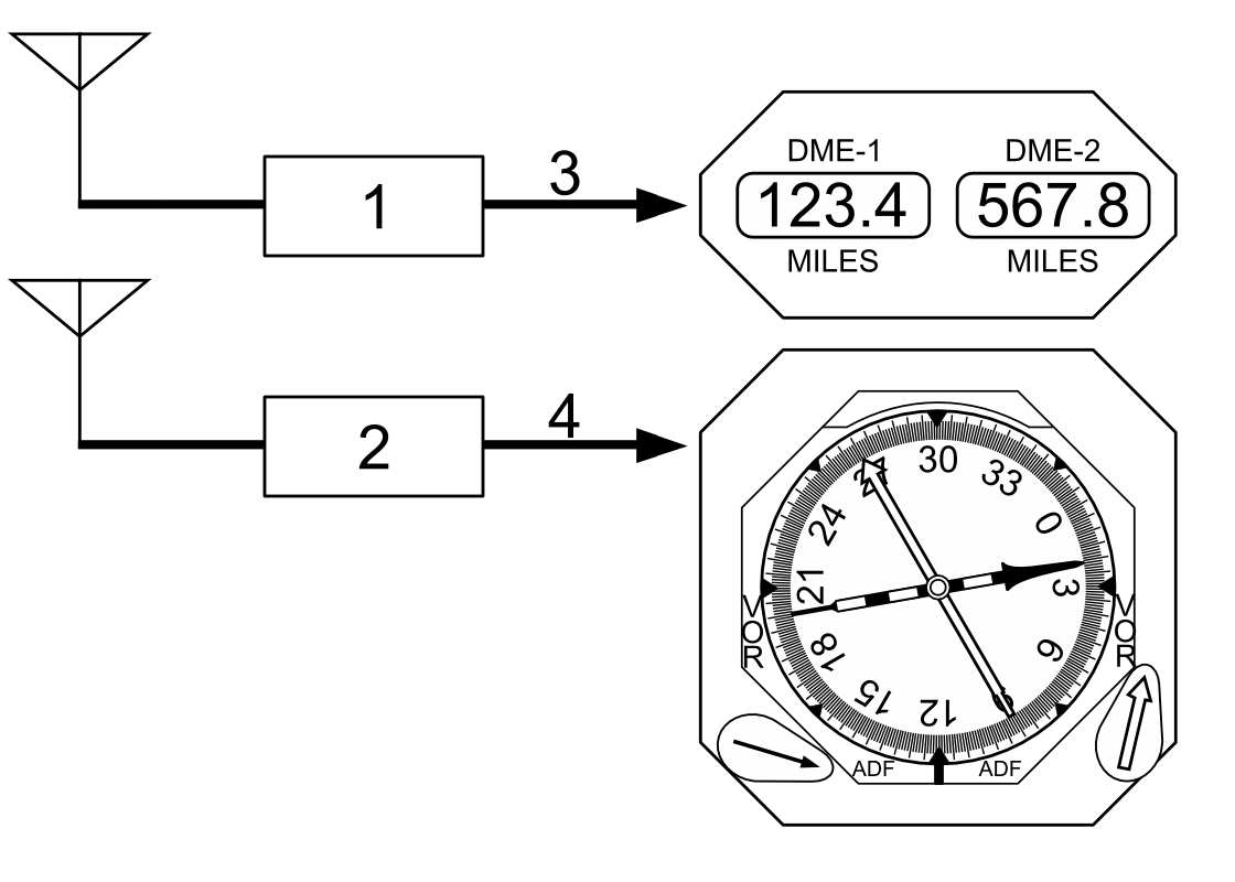 DME VOR avionics